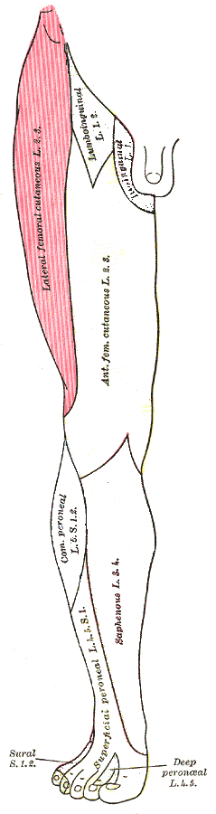 Image:Gray826.png with lateral femoral cutaneous nerve identified